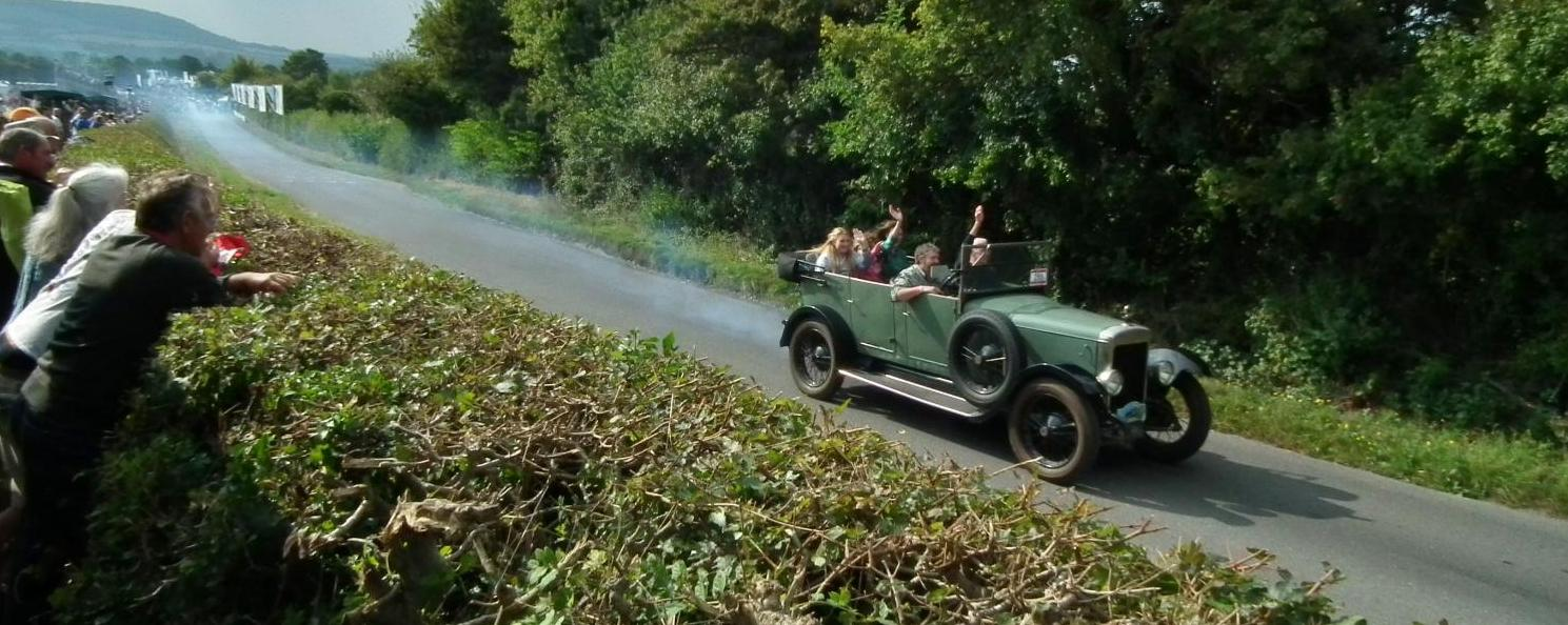 1925 Daimler 16-55 tourer Kop Hill Climb 2014Kop Hill, Princes Risborough